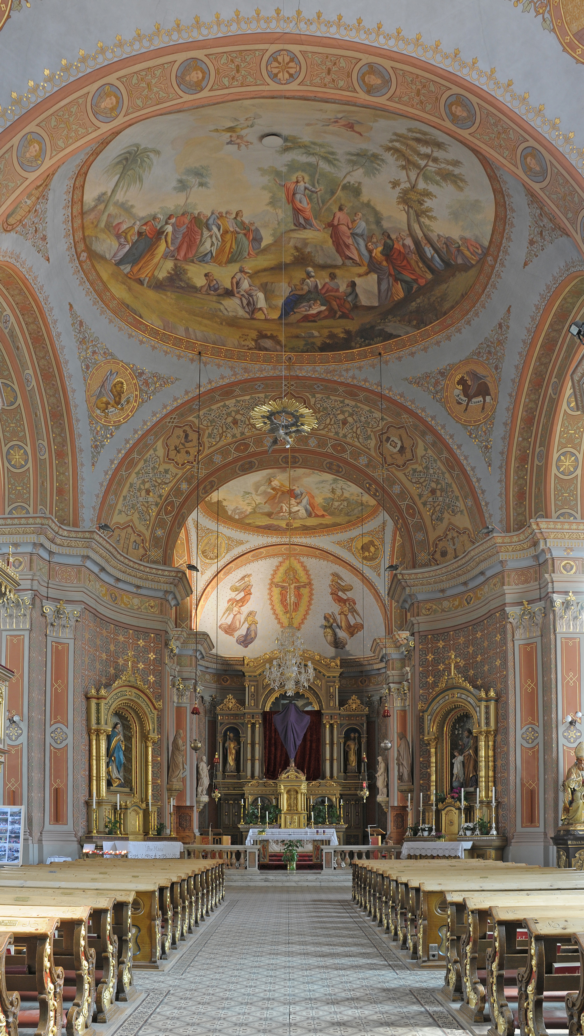 Internal view of the Parish Church of Urtijëi - late 18th century.